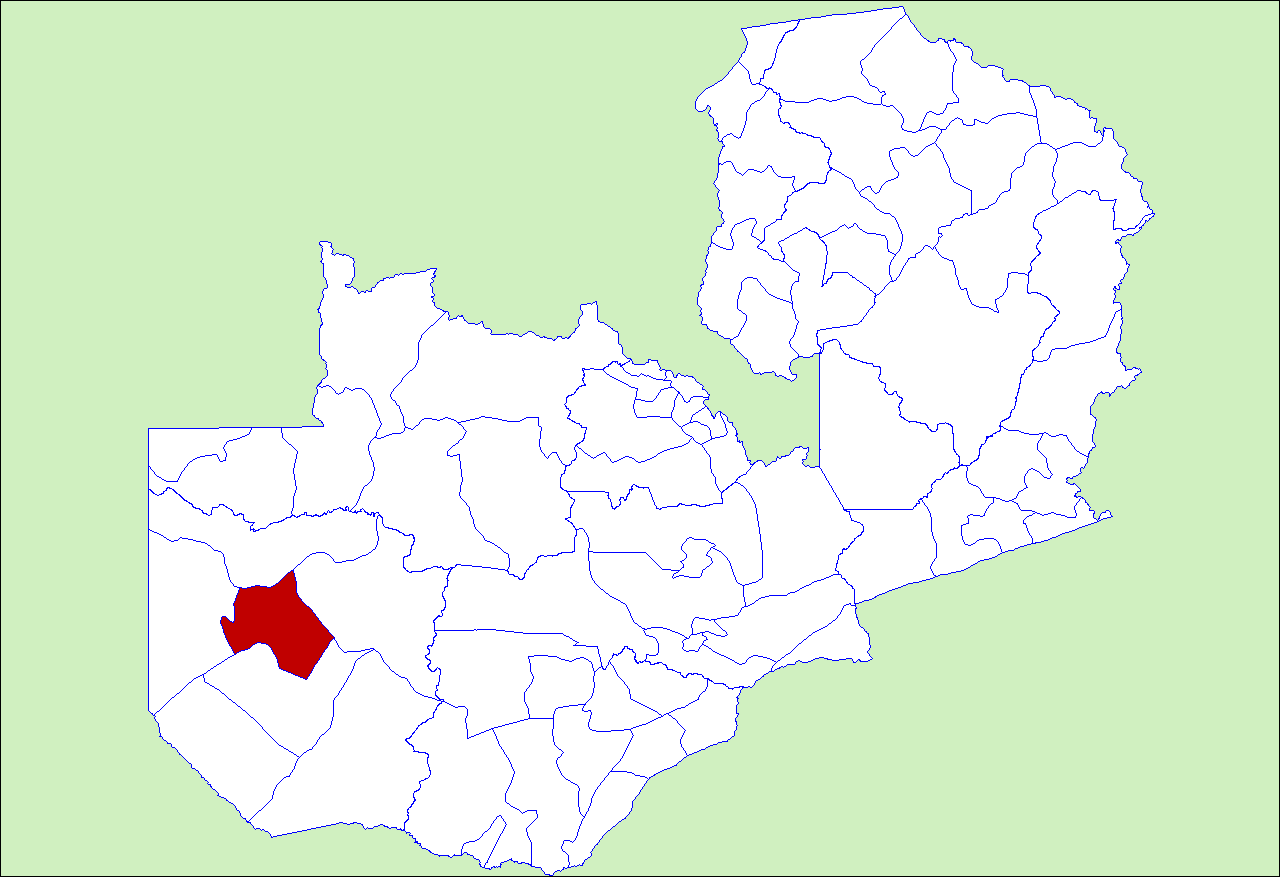 District locator in Zambia